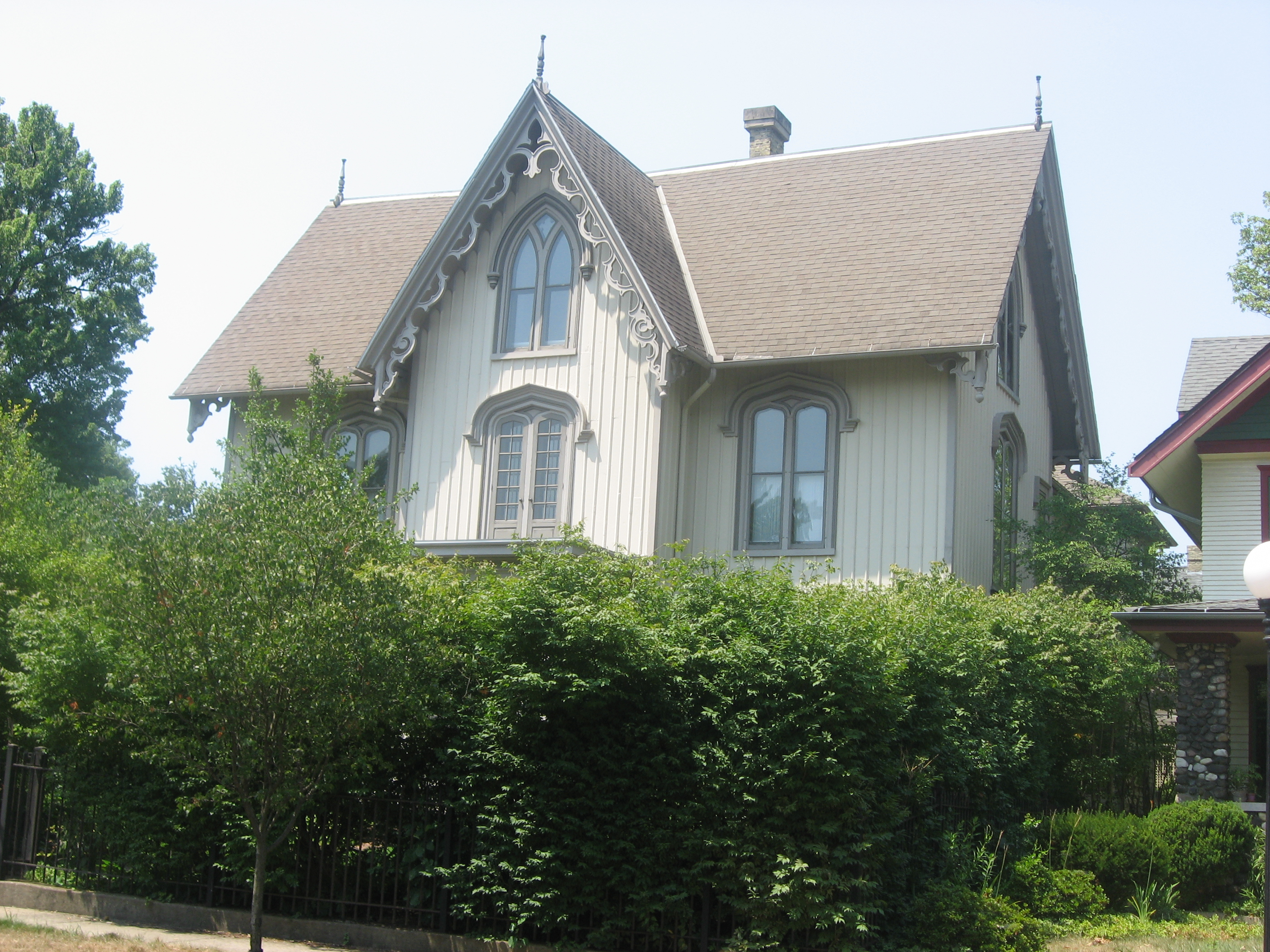 Front of the Horatio Chapin House, located at 601 Park Avenue in South Bend, Indiana, United States. Built in 1857, it is listed on the National Register of Historic Places, and it is part of a Register-listed historic district, the Chapin Park Historic District.